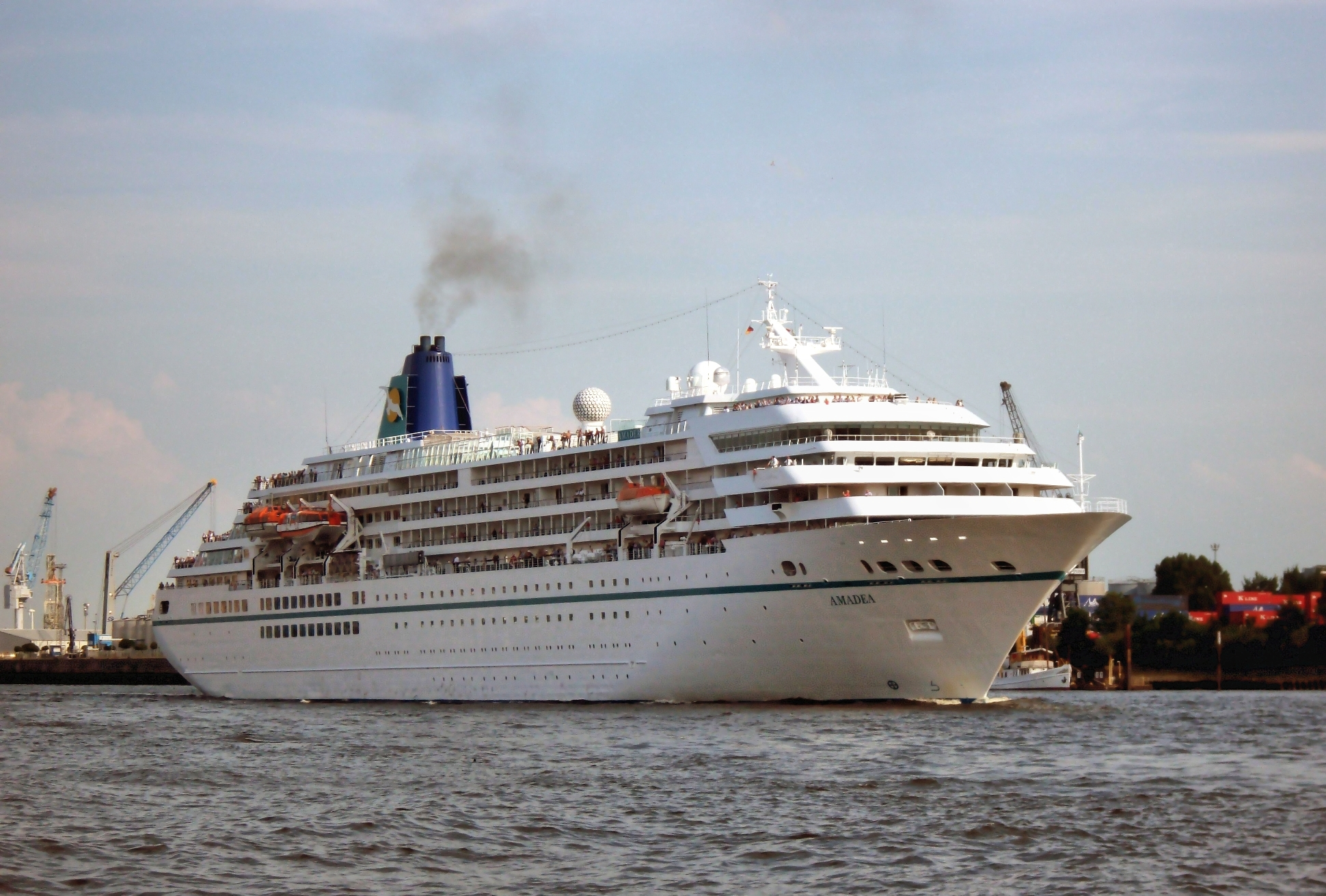 Cruise Ship Amadea down on the river Elbe, coming from Hamburg